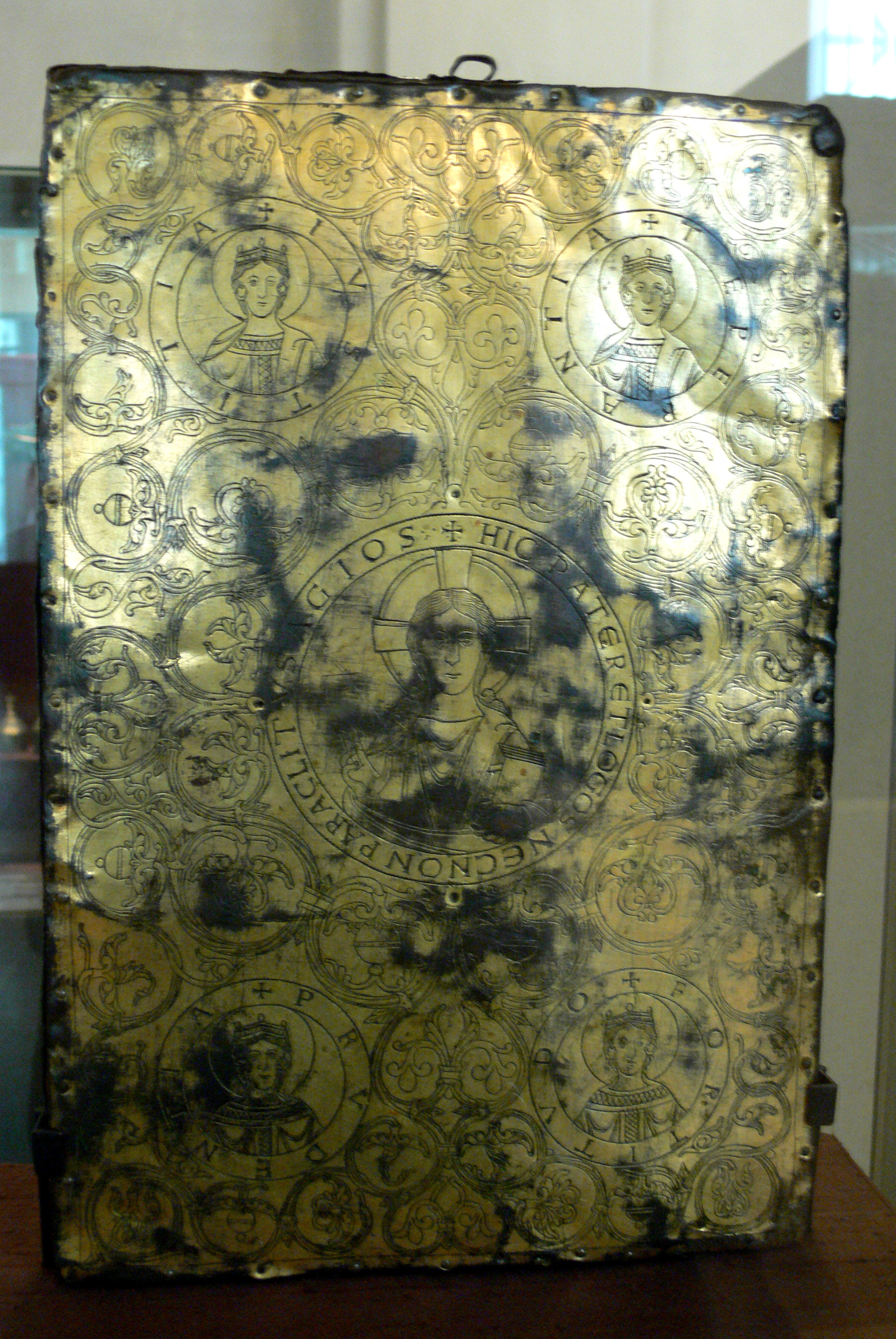 Portable altar, c. 1020, Fulda or Bamberg (?); oakwood, marble, gilded copper; from the Church of Watterbach near Miltenberg; maybe originally from the Church of Amorbach Abbey Bayerisches Nationalmuseum München, Inv. Nr. MA 198; erworben 1885